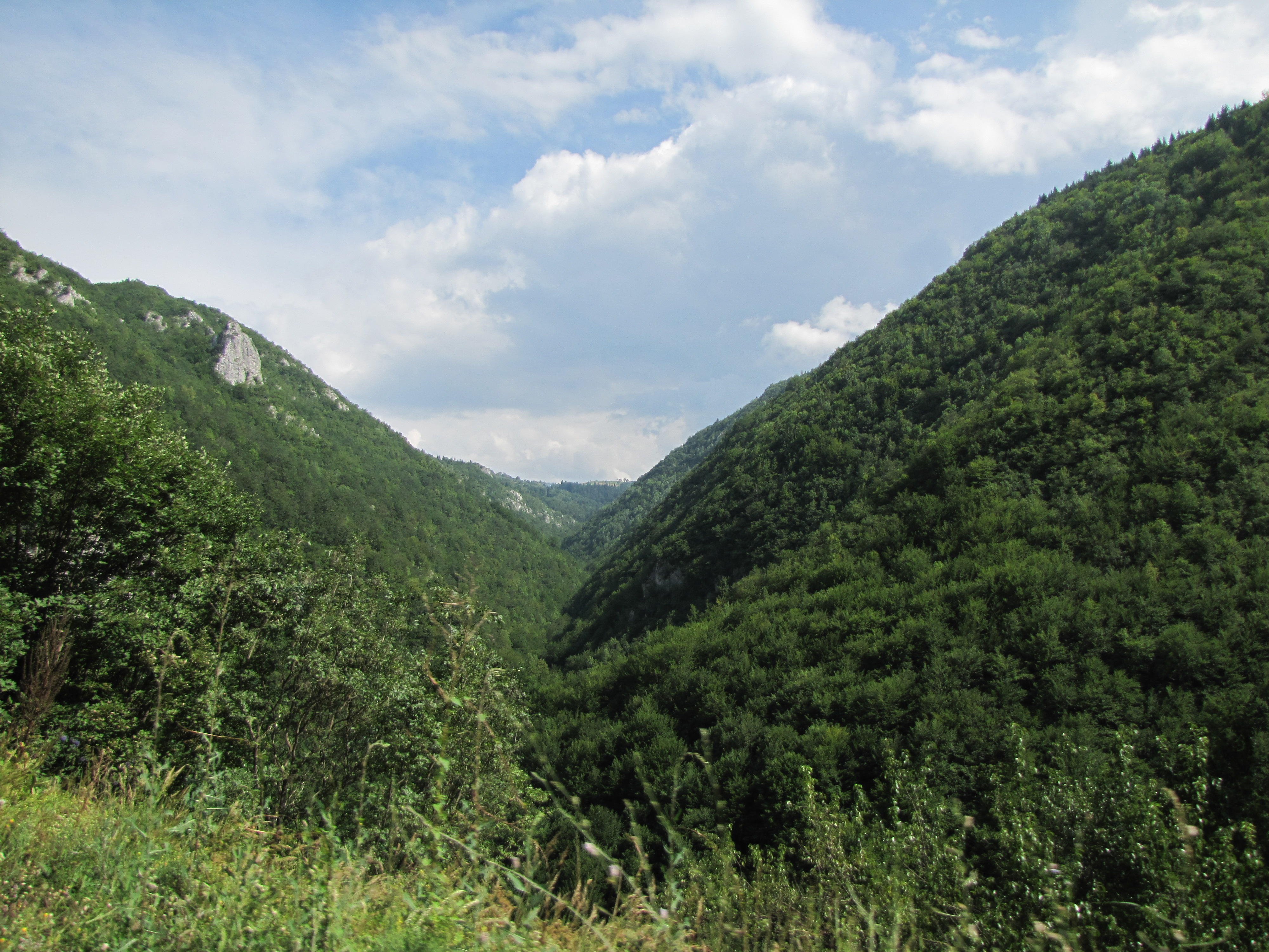 The Suhovara River gorge (Zapadni Mojstir, Tutin, SW Serbia), seen from the Ibar gorge.